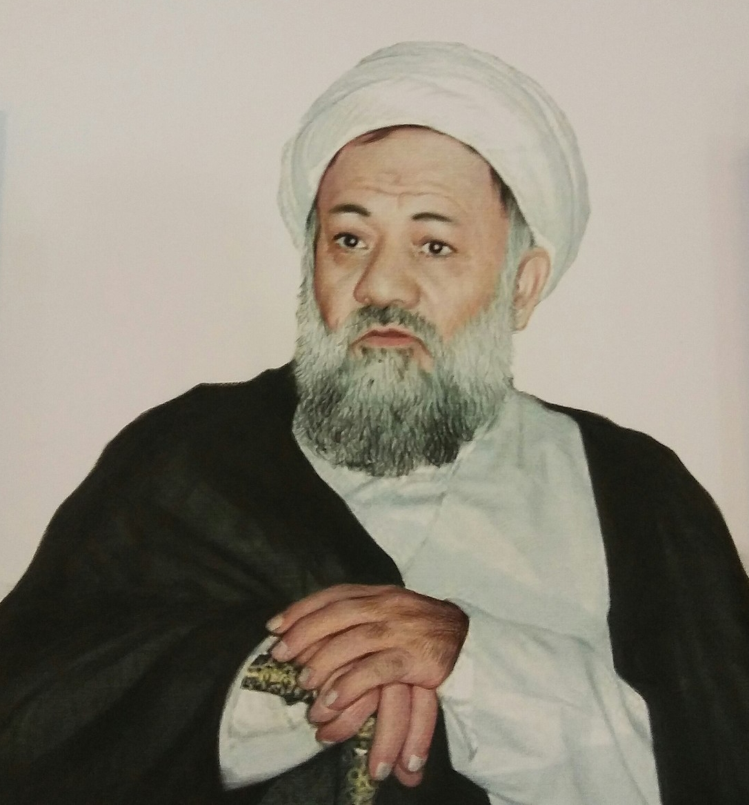 razavi picture